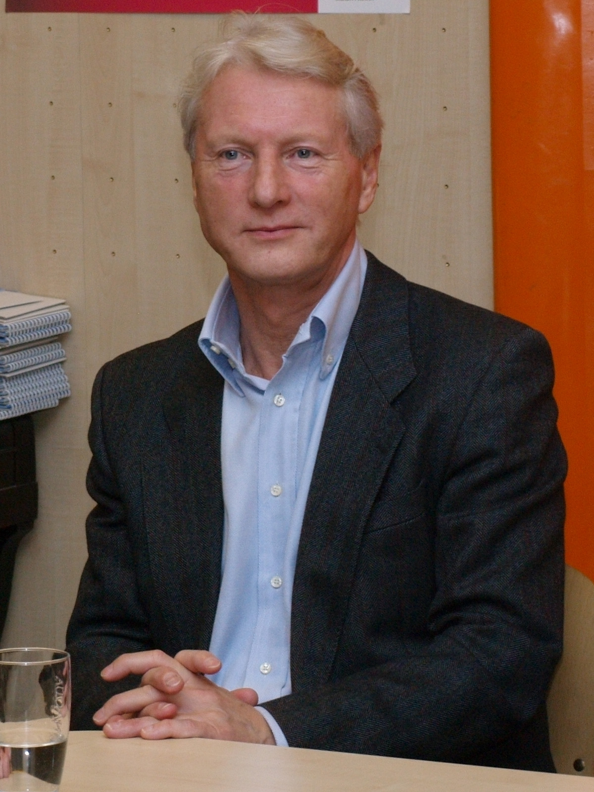 Ladislav Špaček, Czech journalist, former spokesman of Czech president Václav Havel